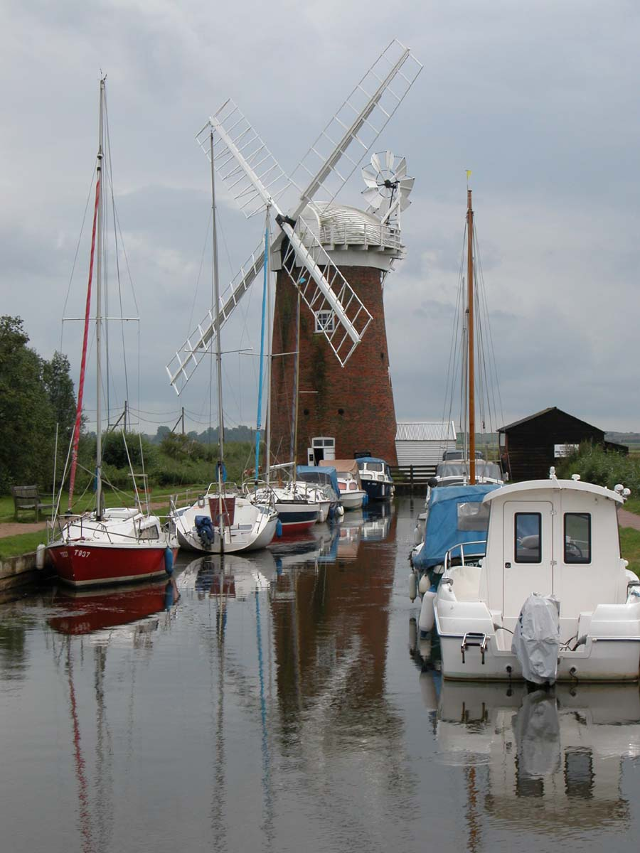 Horsey windpump. Image taken in August 2004 by William M. Connolley.